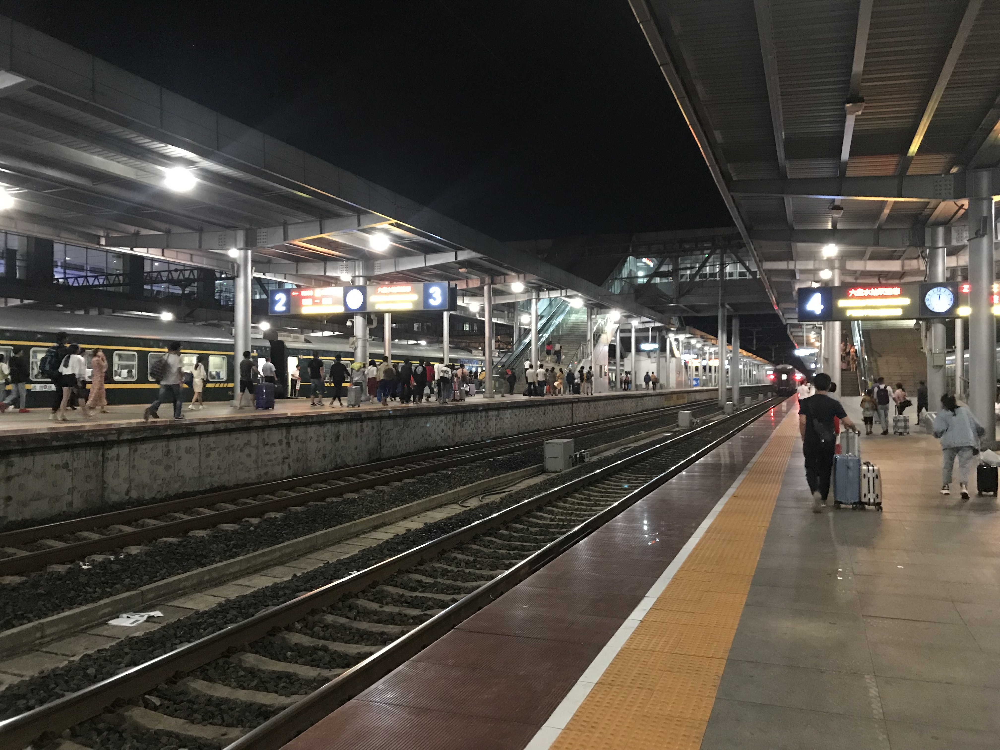 Surprisingly low-height platform.